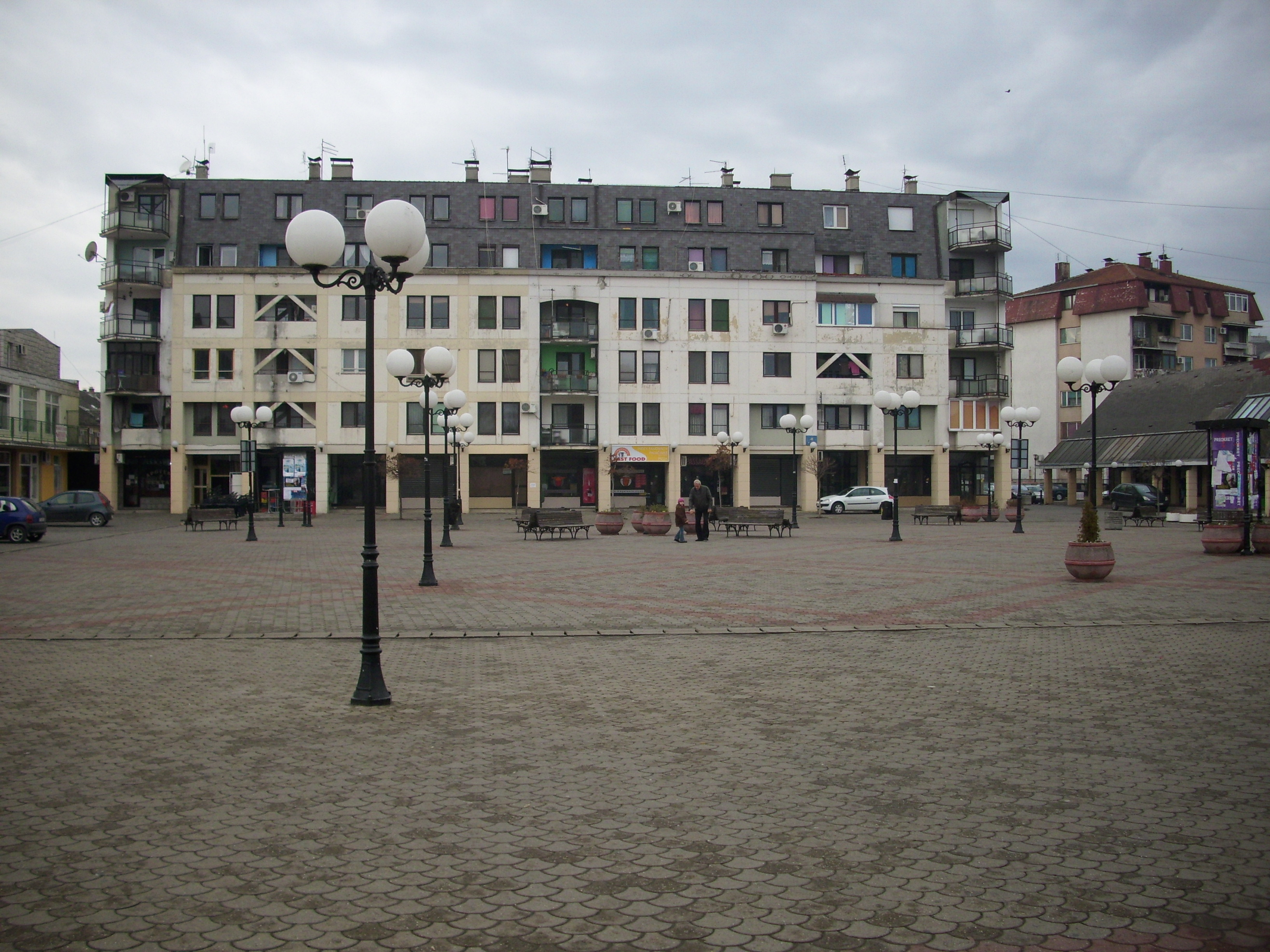 Zoran Đinđić Square in Stara Pazova